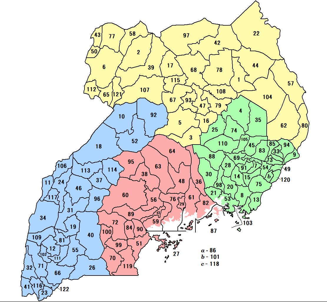 Districs & Regions Uganda (2017)